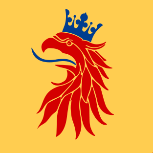 The official flag of Scania, one of Sweden's traditional provinces